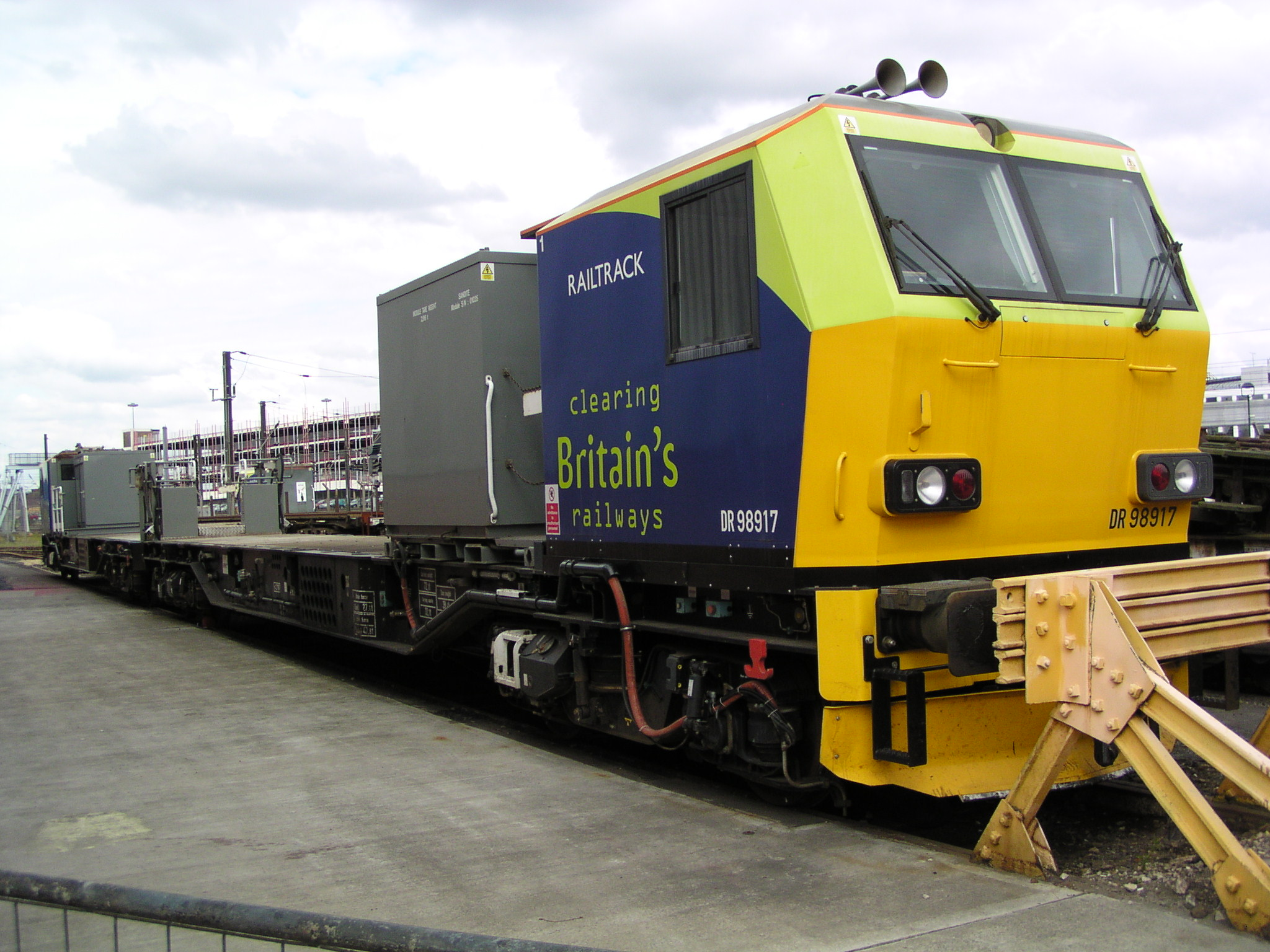 Railtrack MPV nos. DR98917+DR98967 at Doncaster Works on 27th July 2003. These purpose-built departmental vehicles were built to replace older trains converted from former passenger vehicles. Image by Phil Scott (Our Phellap)